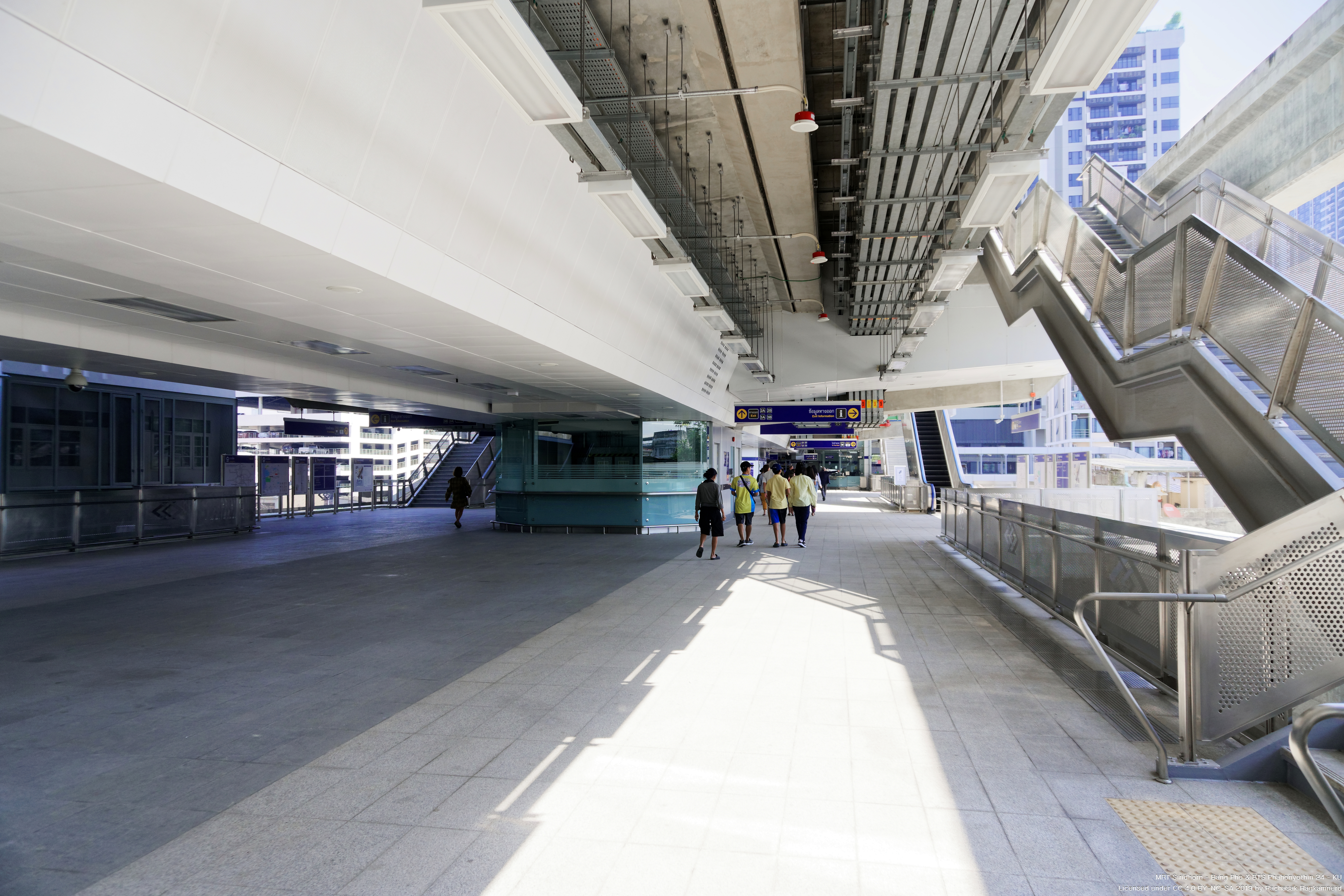 MRT Bang Pho - Ticket office area